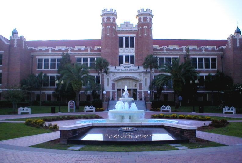 Wescott Building at Florida State University - slightly cropped, and with some color/contrast adjustment